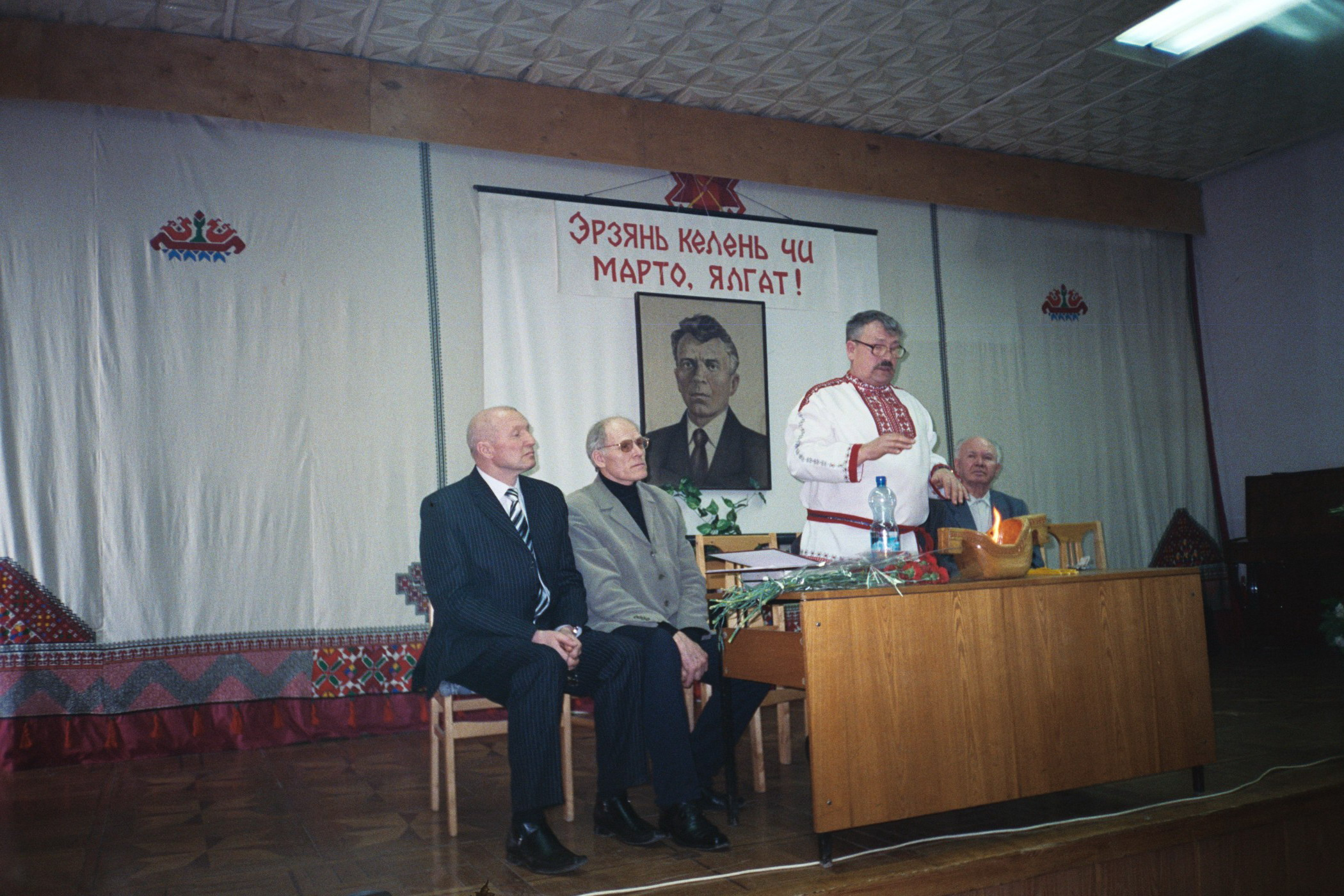 Erzya language Day (erz. Erzyan Kelen Chi), Council of Erzyan Elders (erz. Erzyanj Atyanj Ezem), Saransk, April 16, 2007.